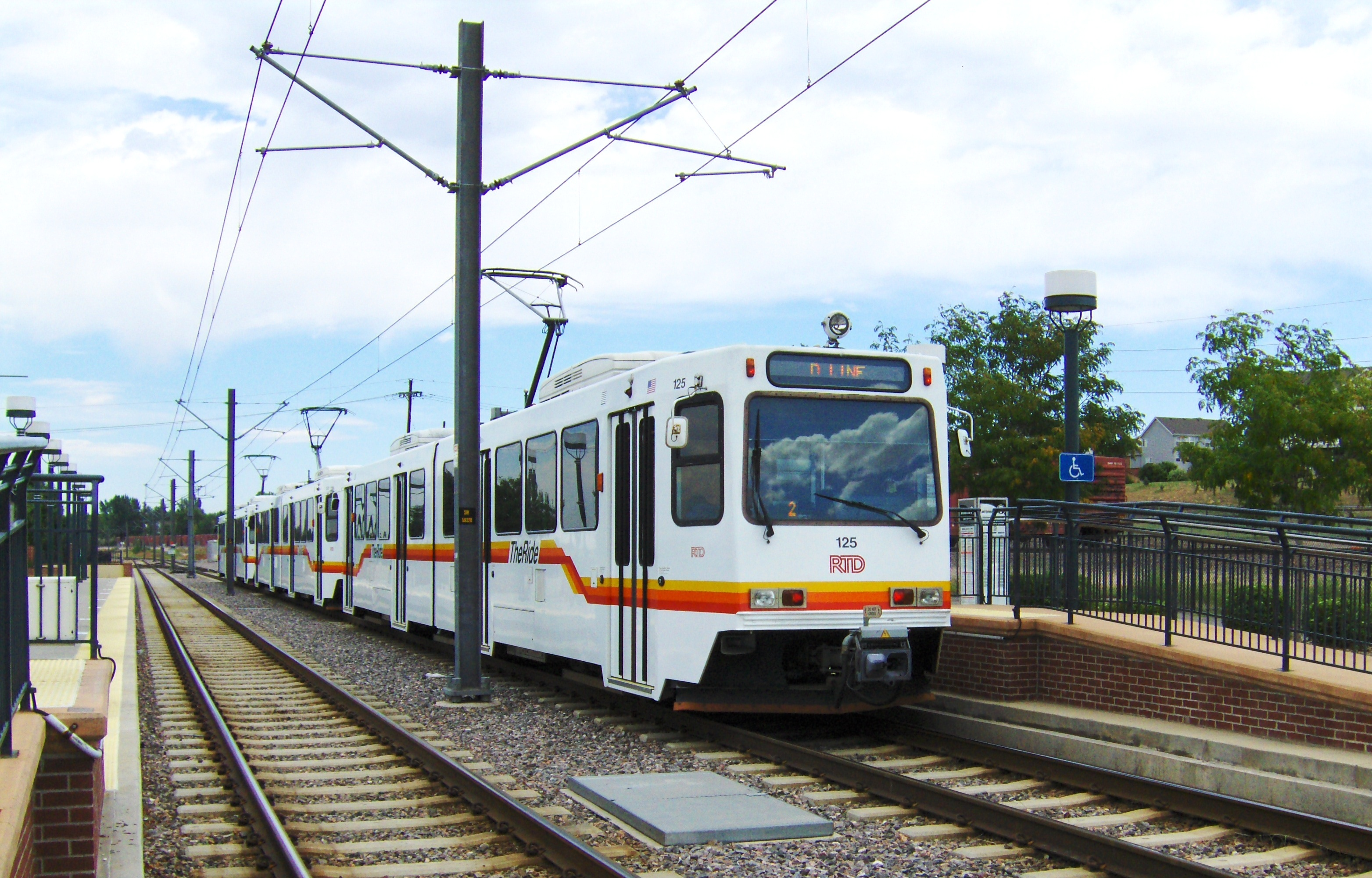 The Littleton-Mineral terminus of Denver light rail lines C and D, with a three-car train (SD-100 car 125 closest) laying over on the D Line. This view is looking northeast.